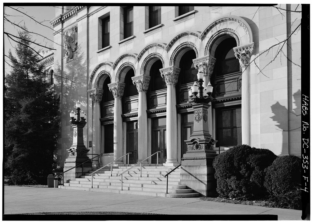 U.S. Grant Building at AFRH-Washington, D.C.